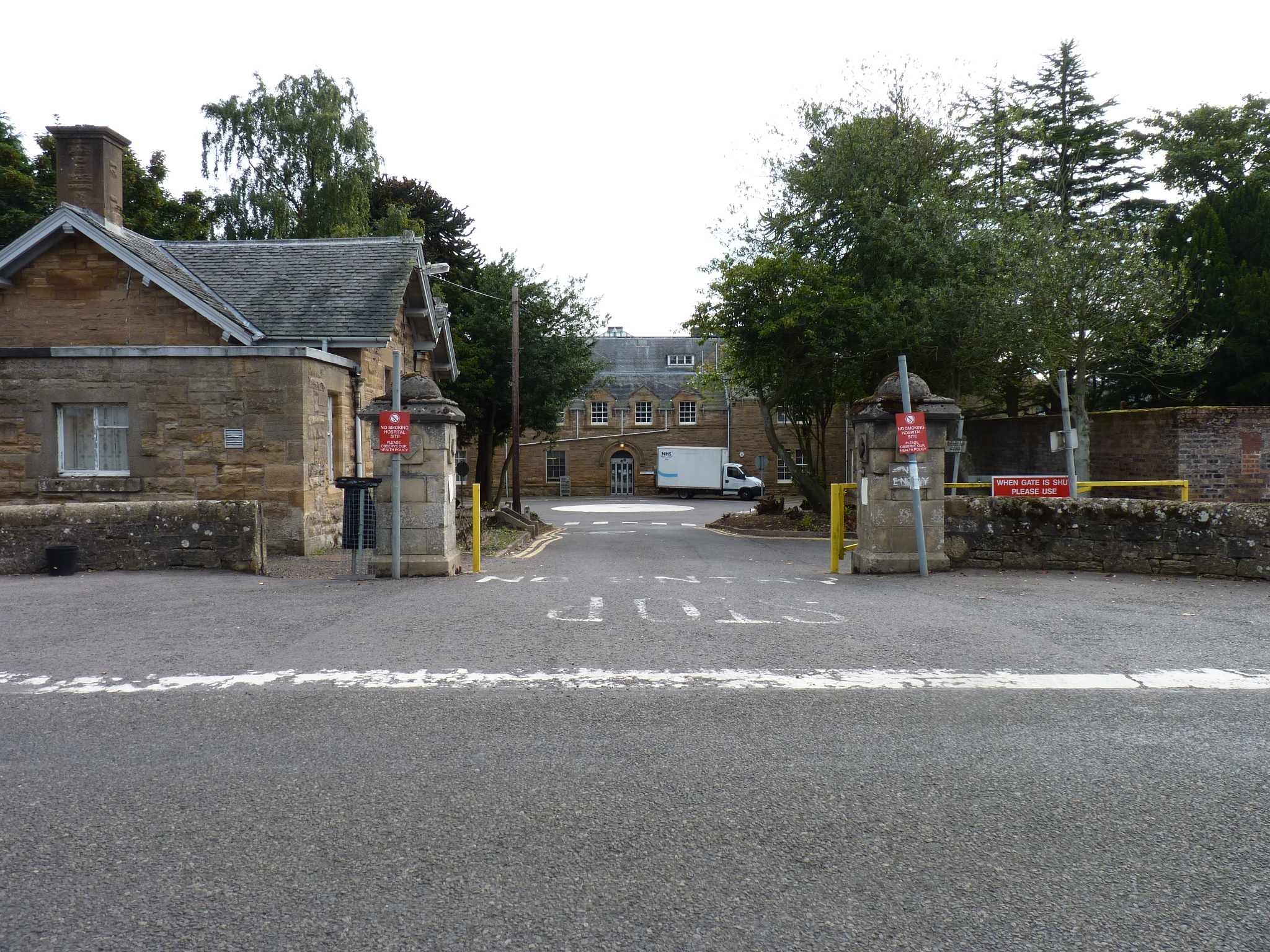 Hospital exit